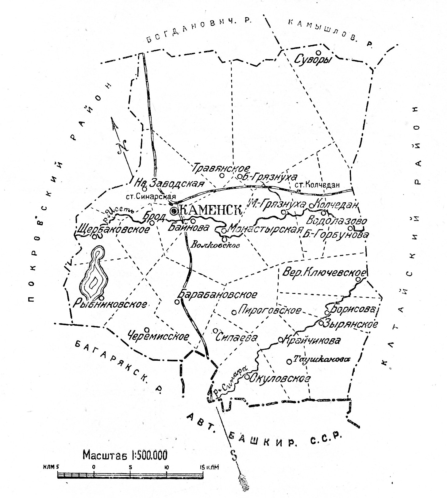 Map of Kamenskiy rayon (Shadrinskiy okrug of Uralic Region of RSFSR) in 1928.